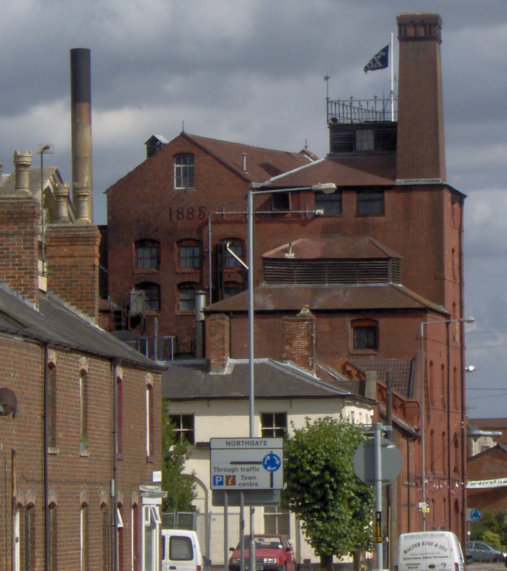 Wadworths Brewery, Devizes. Taken by Rod Ward Aug 2006